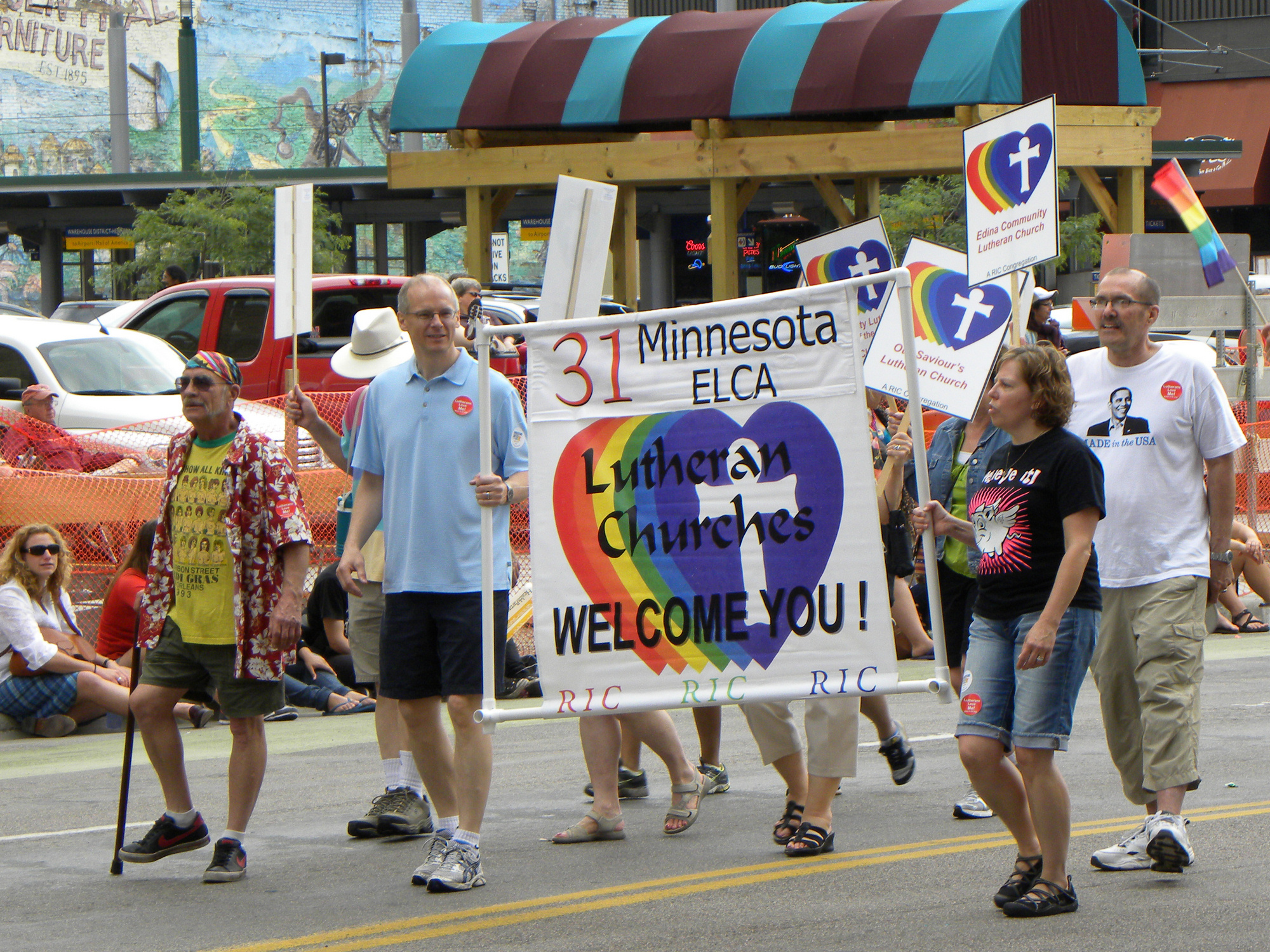 Minneapolis, Minnesota June 26, 2011 The Ashley Rukes GLBT Pride Parade was held along Hennepin Avenue and had over 100,000 spectators. It's one of the largest parades in the upper midwest and the largest in Minneapolis. 2011-06-26 This is licensed under a Creative Commons Attribution License.